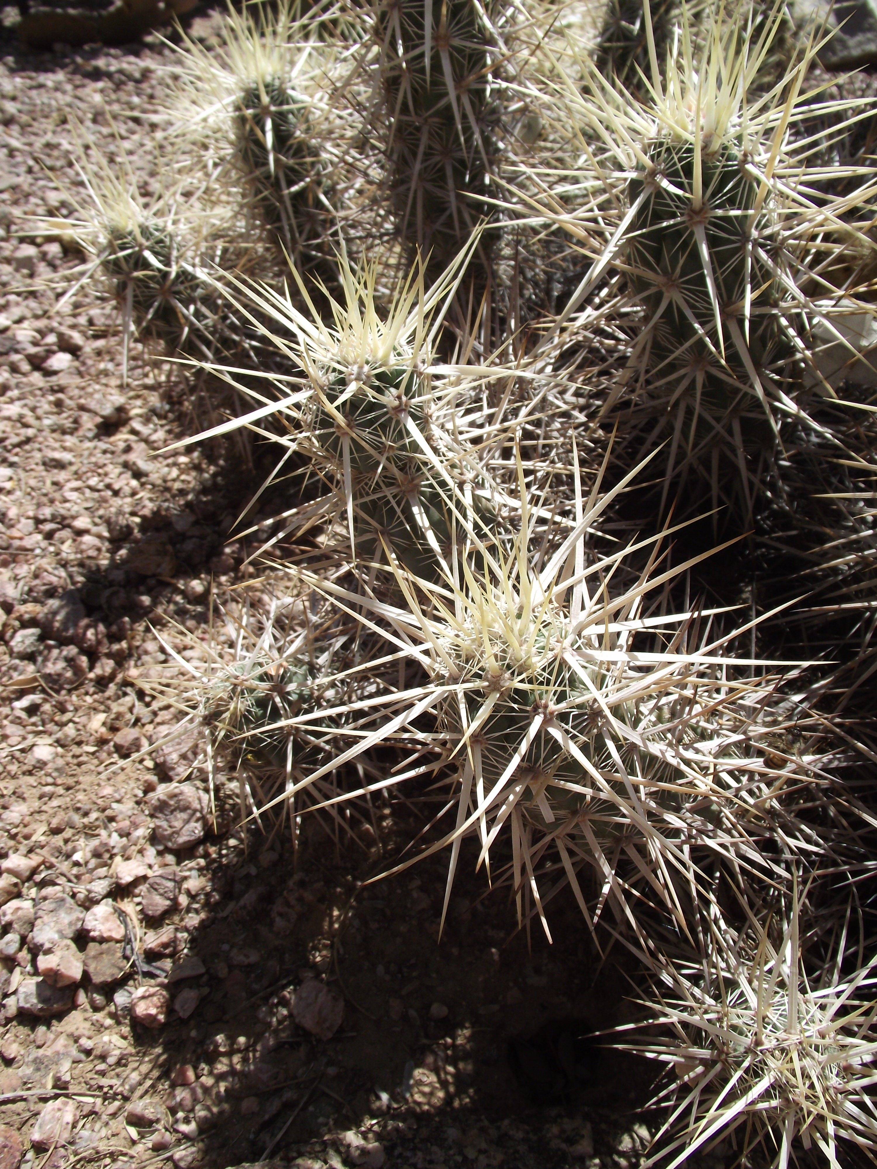 Grusonia invicta at Desert Botanical Garden, Phoenix, Arizona, USA. Identified by sign.